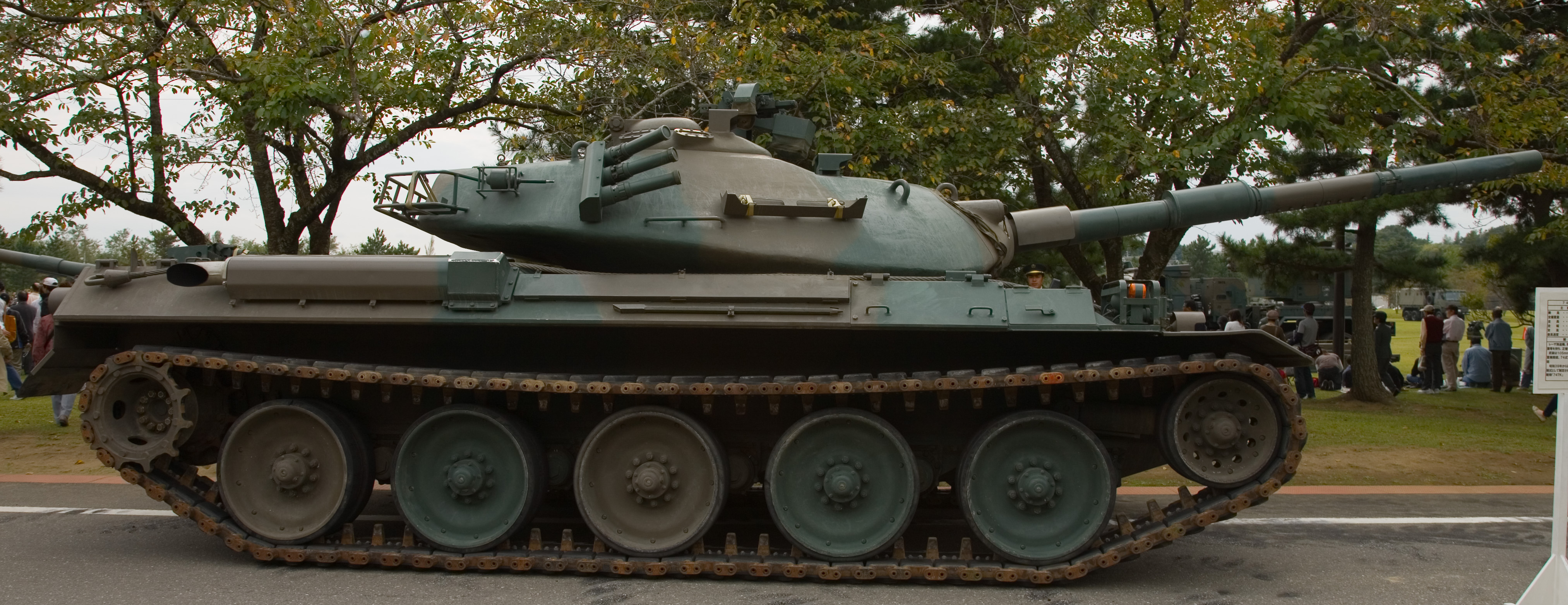 A Type 74 tank on display at the JGSDF Ordnance School in Tsuchiura, Kanto, Japan.